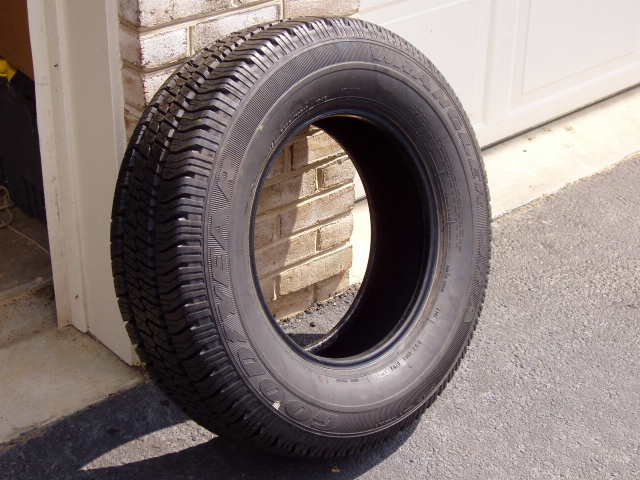 Goodyear Wrangler SR-A P235/70R16 tire